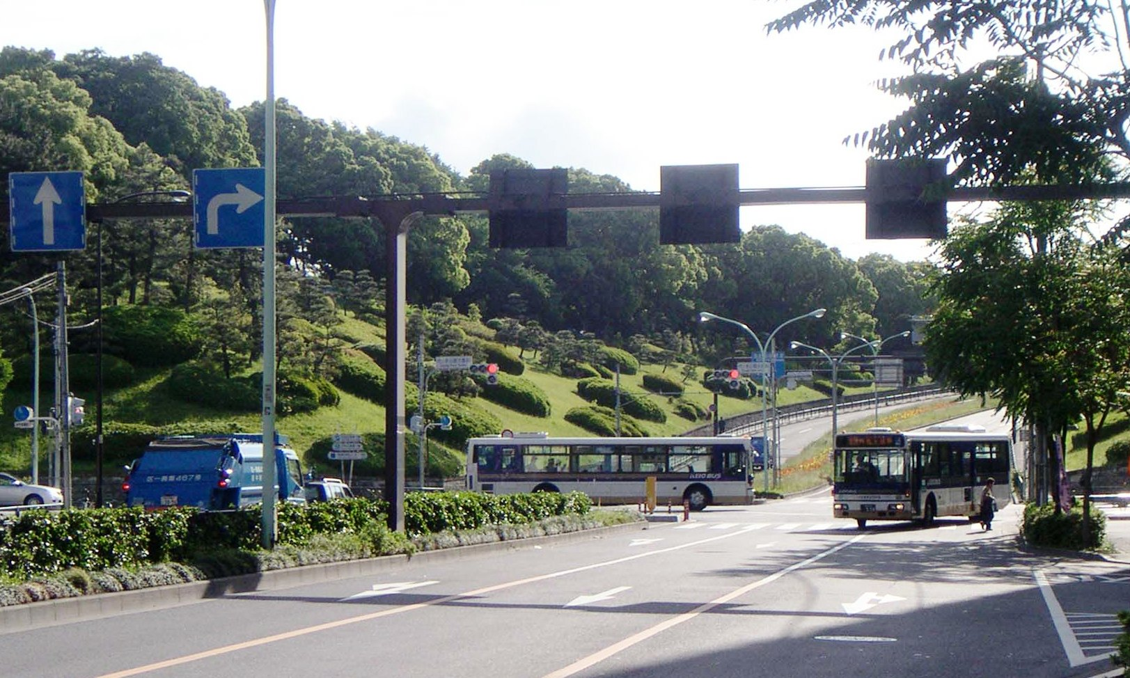 Inokashira Dori Avenue in the Yoyogi Park neighborhood at Tomigaya, Shibuya, Tokyo